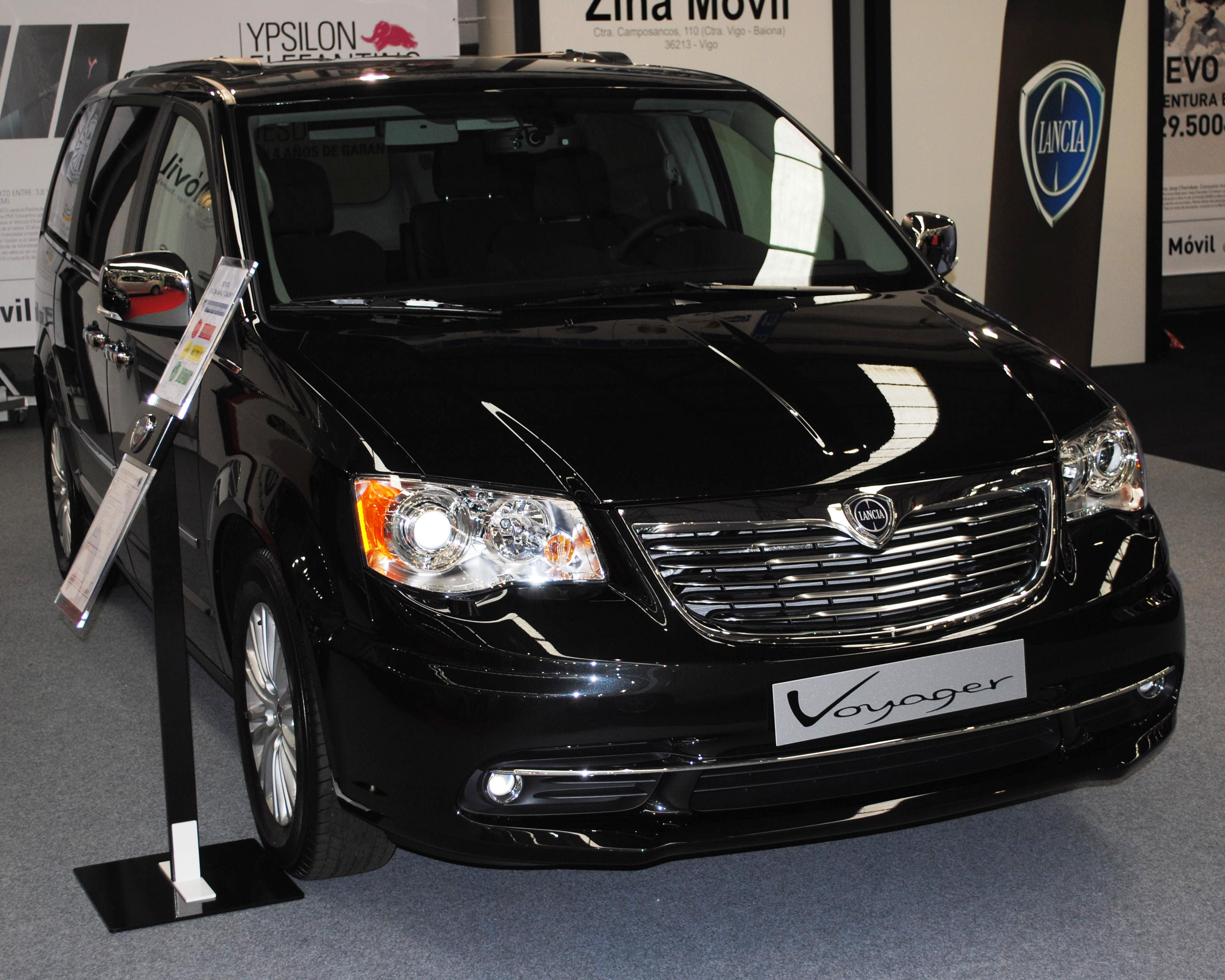 Lancia Voyager MY14 2.8 CRD 6V 177cv.JPG